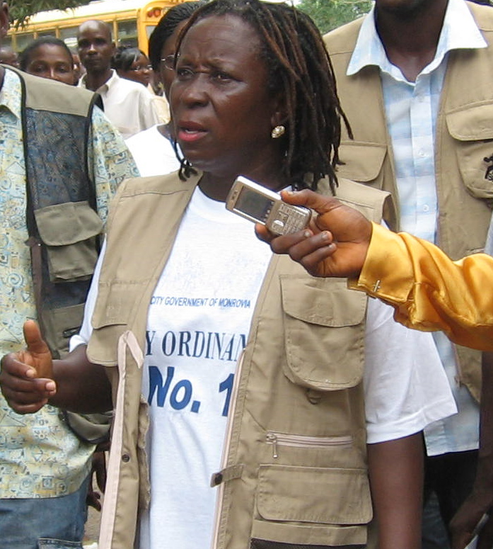 Mary Broh giving statement to the press near the Executive Mansion in Monrovia (October 2009)